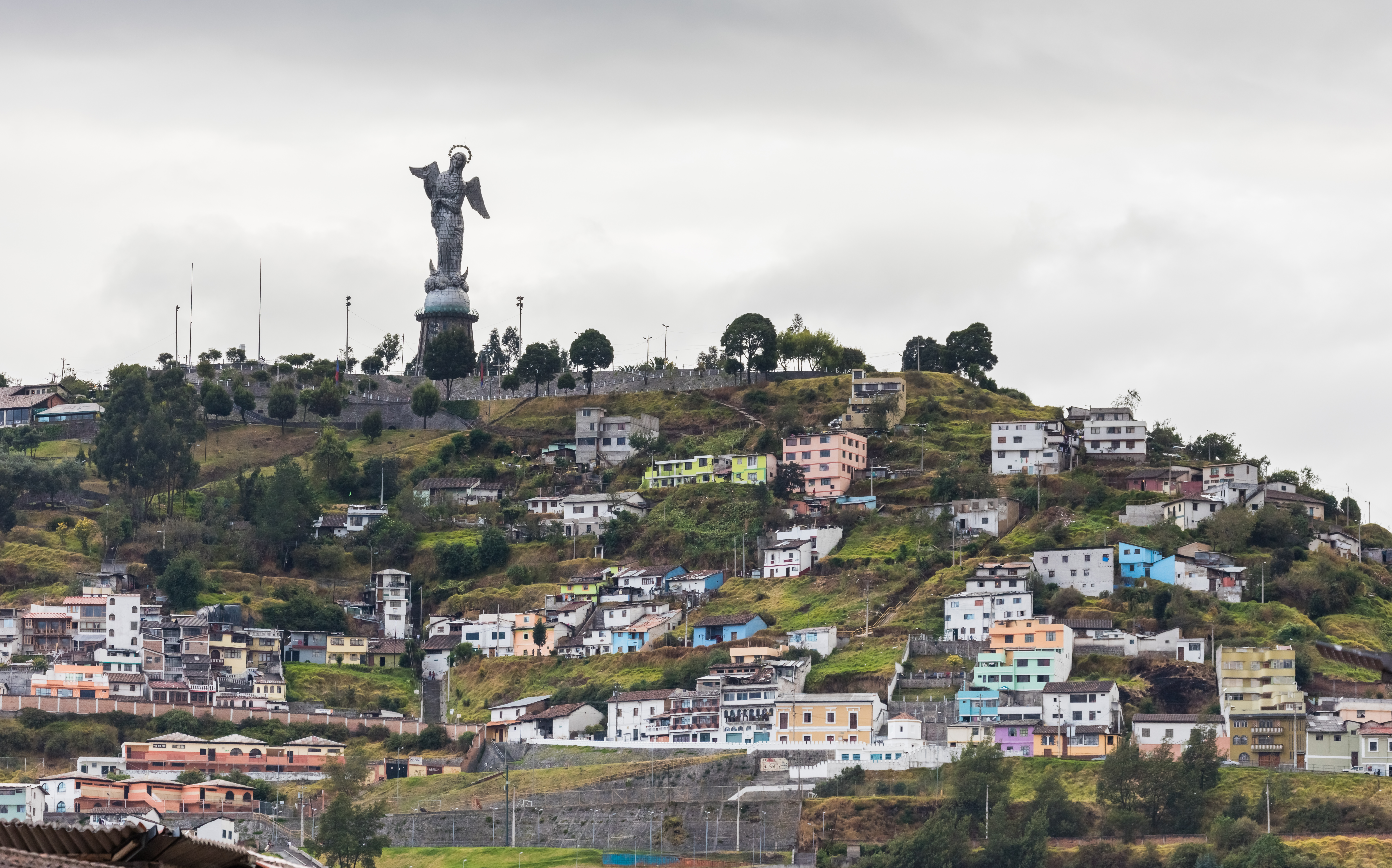 El Panecillo, Quito, Ecuador